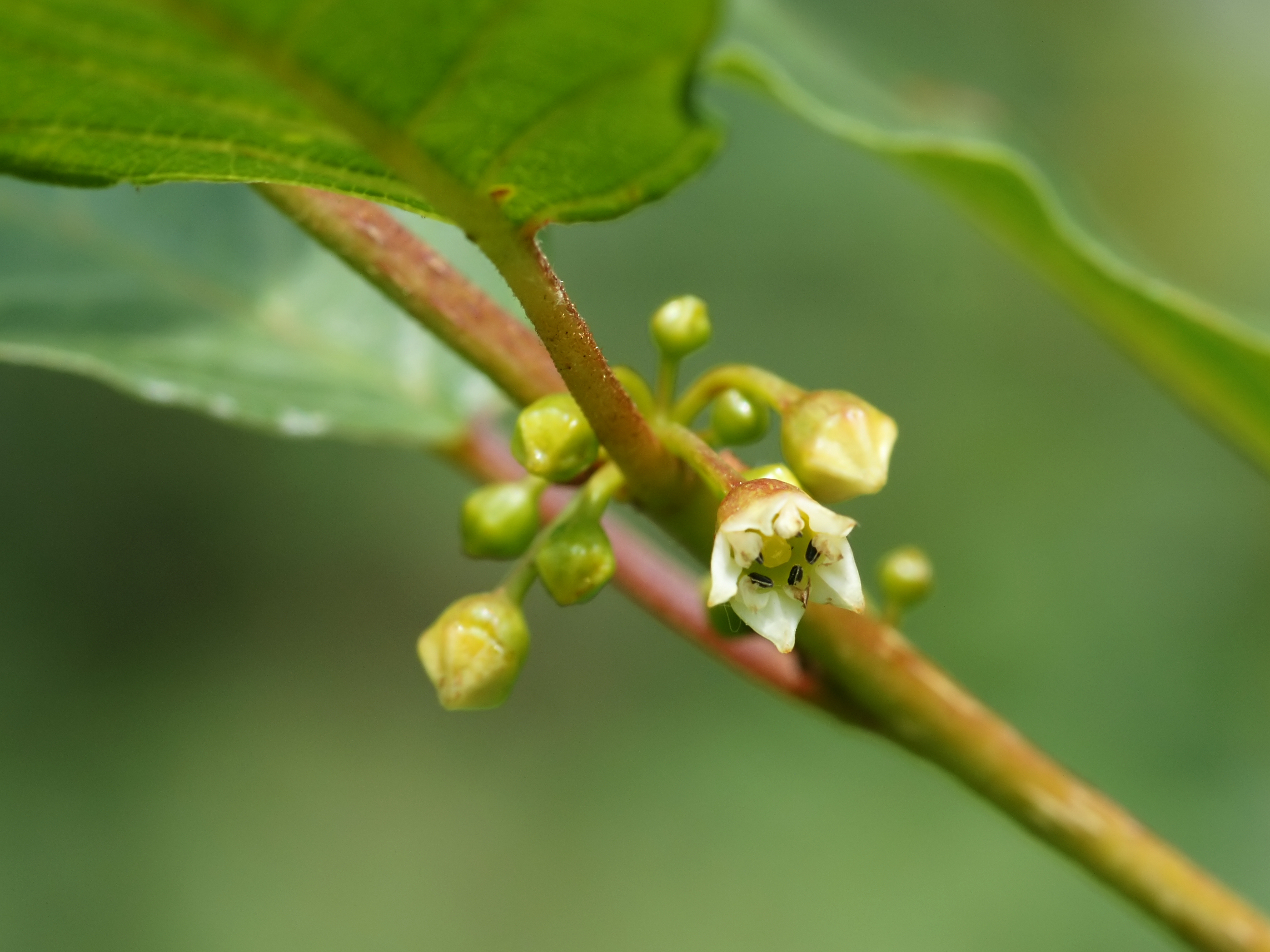 Alder Buckthorn at Kampenhout, Belgium